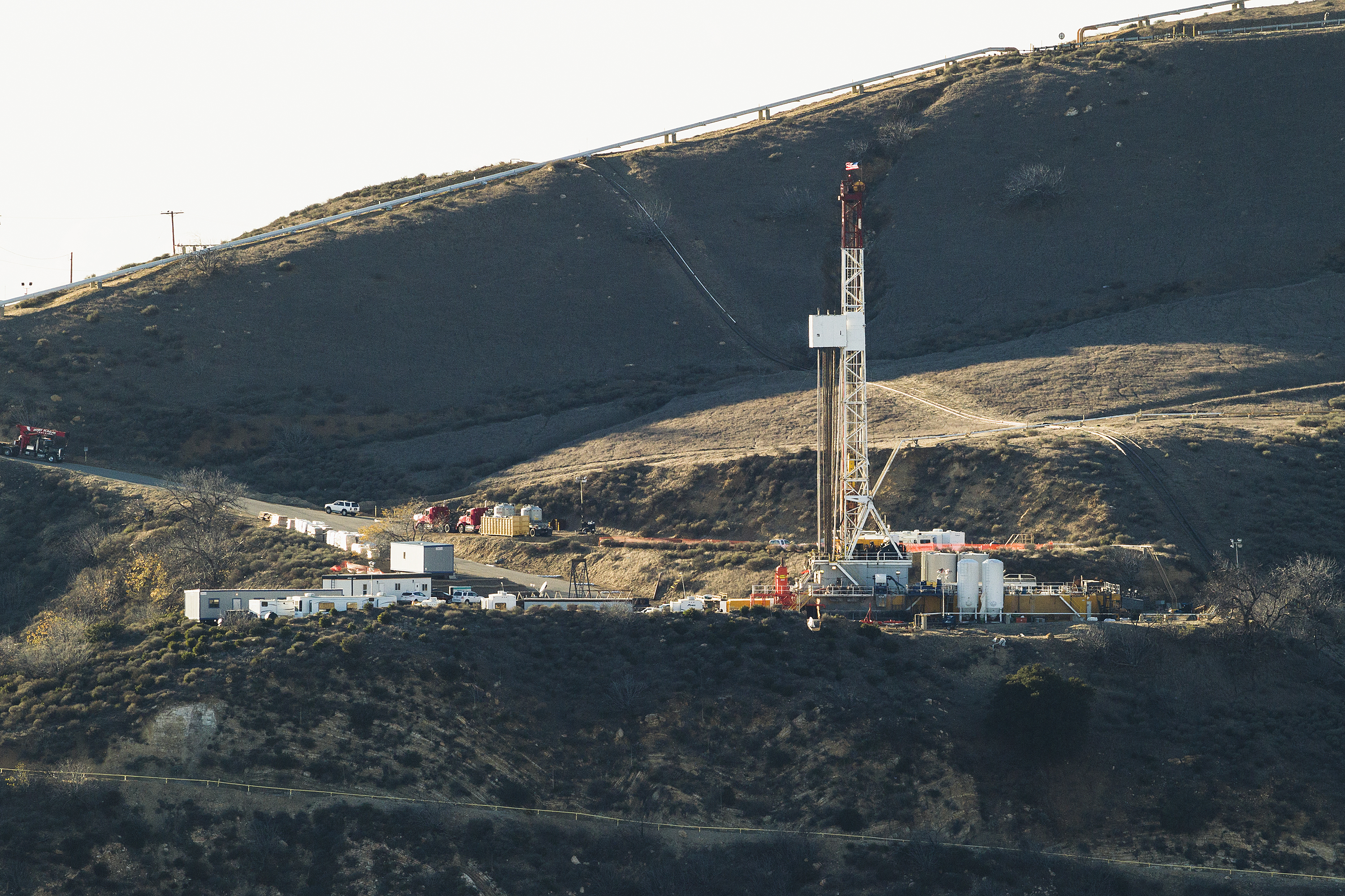 Equipment and machinery is seen on a ridge above a natural gas well known as SS25 in Southern California Gas Company's vast Aliso Canyon facility. Pressure on the company has been mounting as residents of nearby Porter Ranch deal with the odor resulting from a leak at the well which was discovered on October 23. 12/14/2015